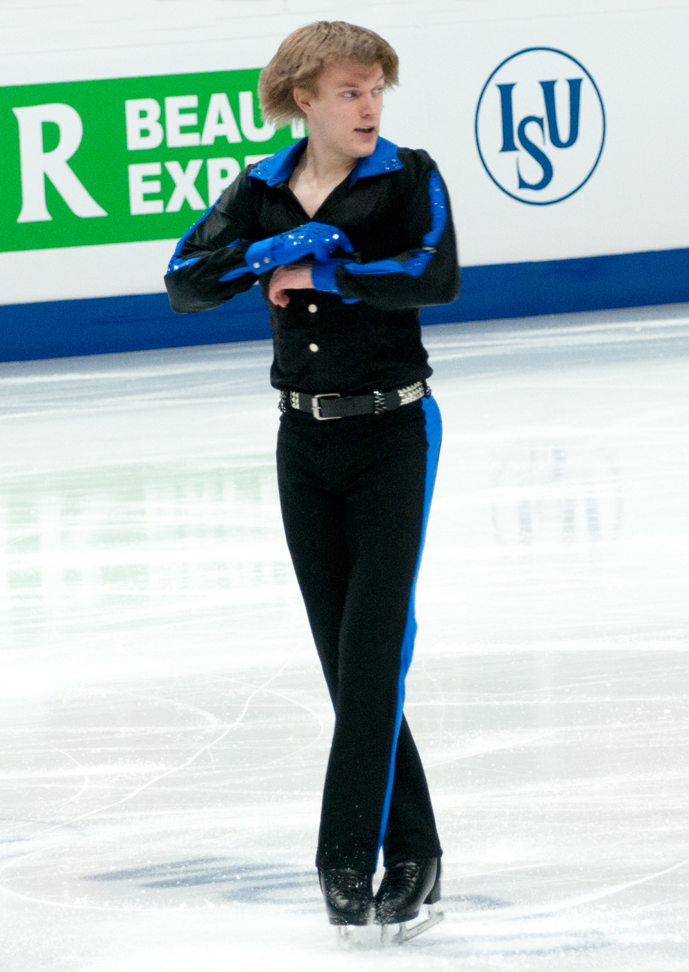 2011 World Figure Skating Championships, free skating.